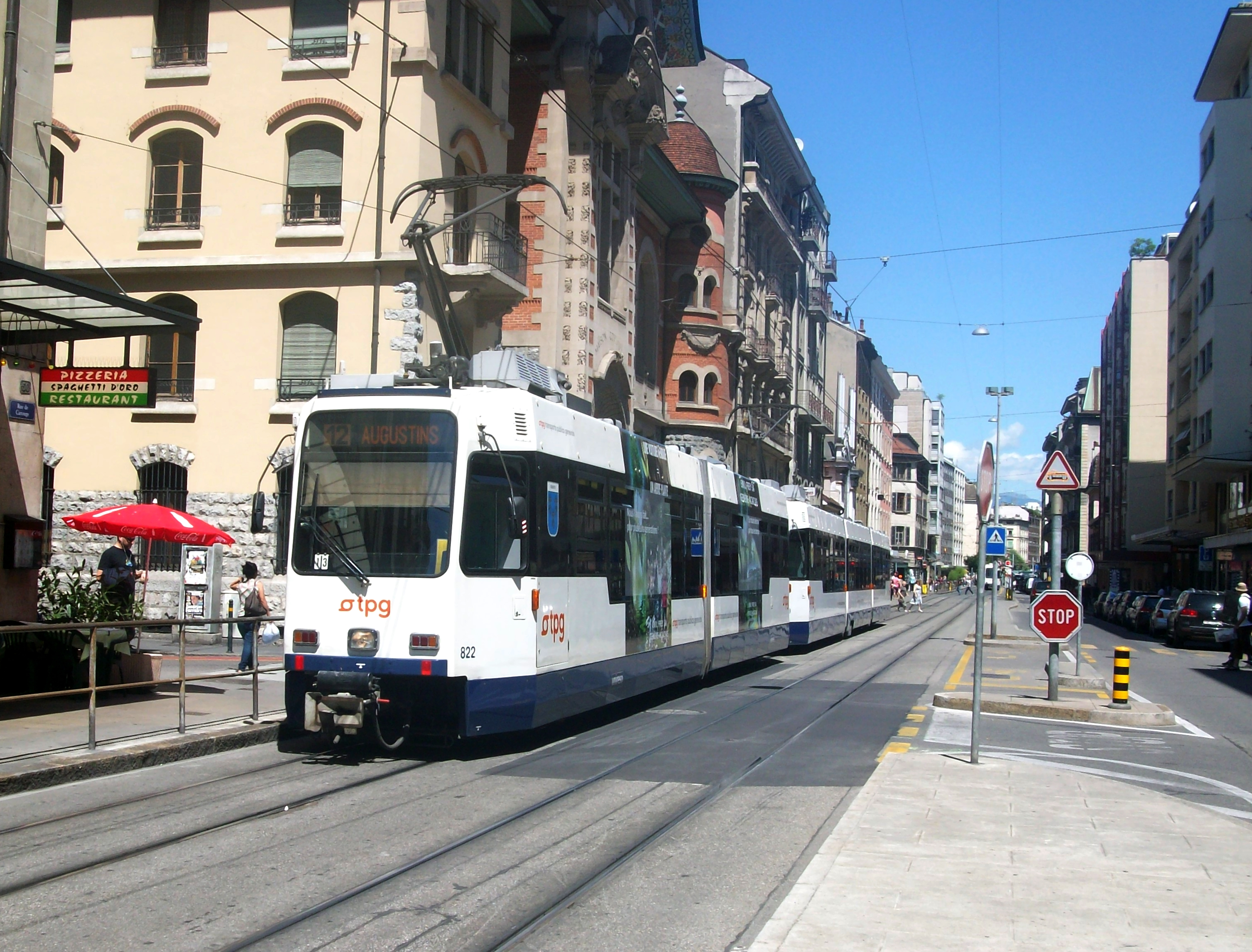 Duewag-Vevey Be 4/6 (TPG), Geneva